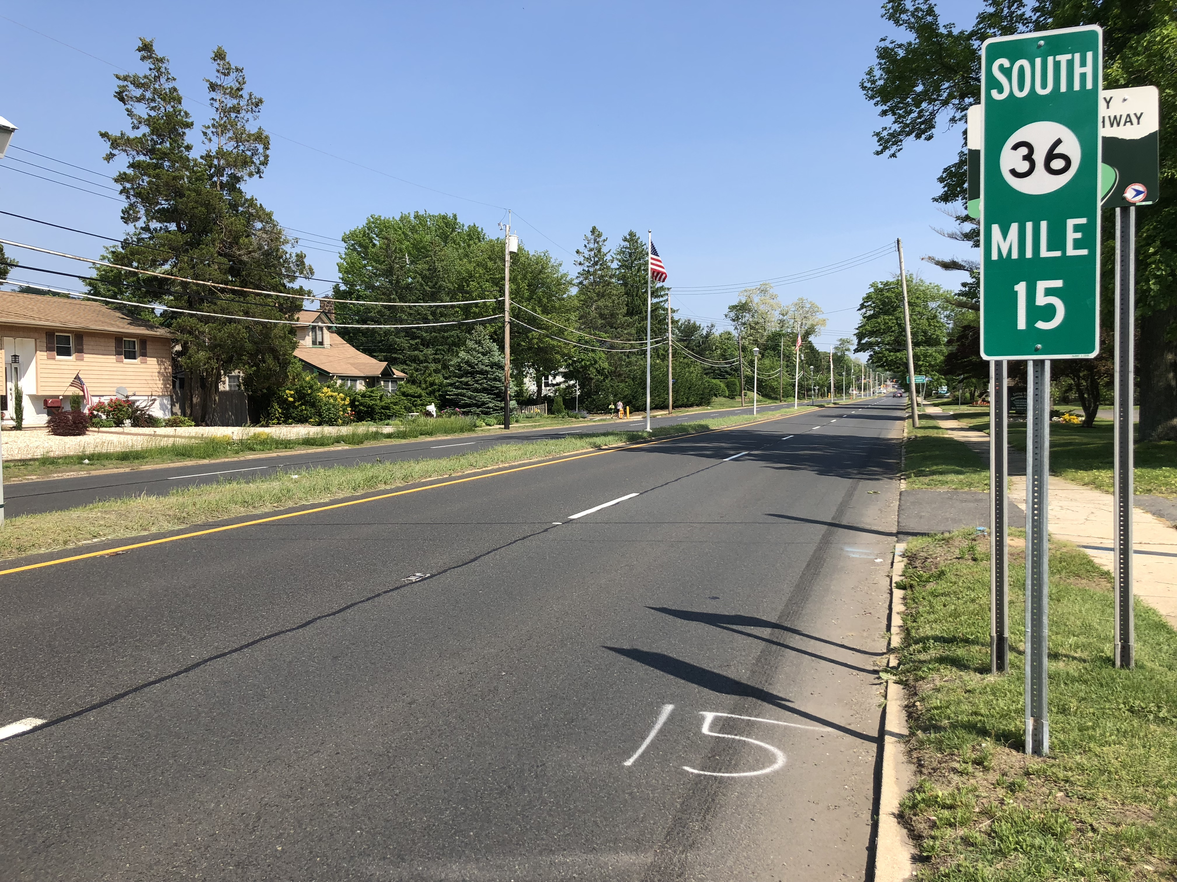 View south along New Jersey State Route 36 (Memorial Parkway) between 3rd Avenue and 7th Avenue in Atlantic Highlands, Monmouth County, New Jersey